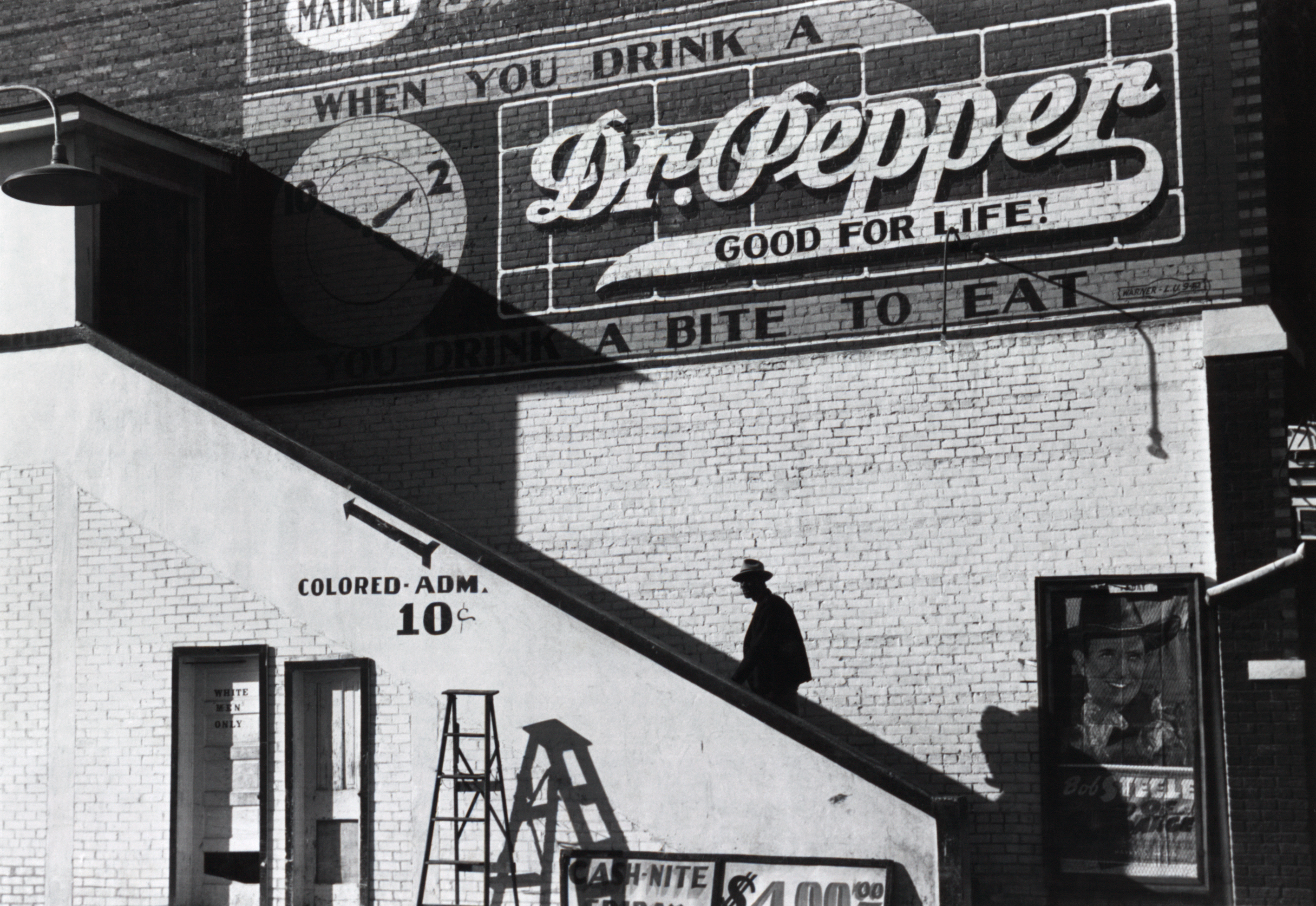 African-American patron going in colored entrance of the Crescent Theatre in Belzoni, Mississippi, on a Saturday afternoon.